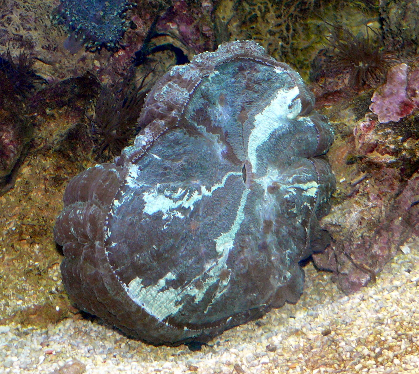 Cynarina deshayesiana, a Stony coral